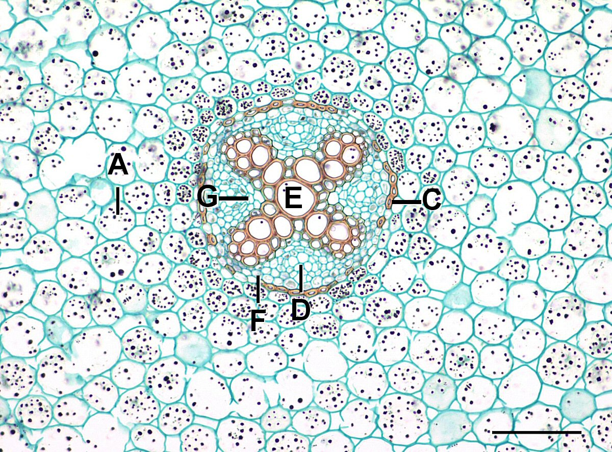 Photomicrograph of a Ranunculus root. A-Starch grains within parenchyma cell, C-Endodermis, D-Primary phloem, E-Primary xylem, F-Pericycle, G-Vascular cambium. Scale=0.2mm.